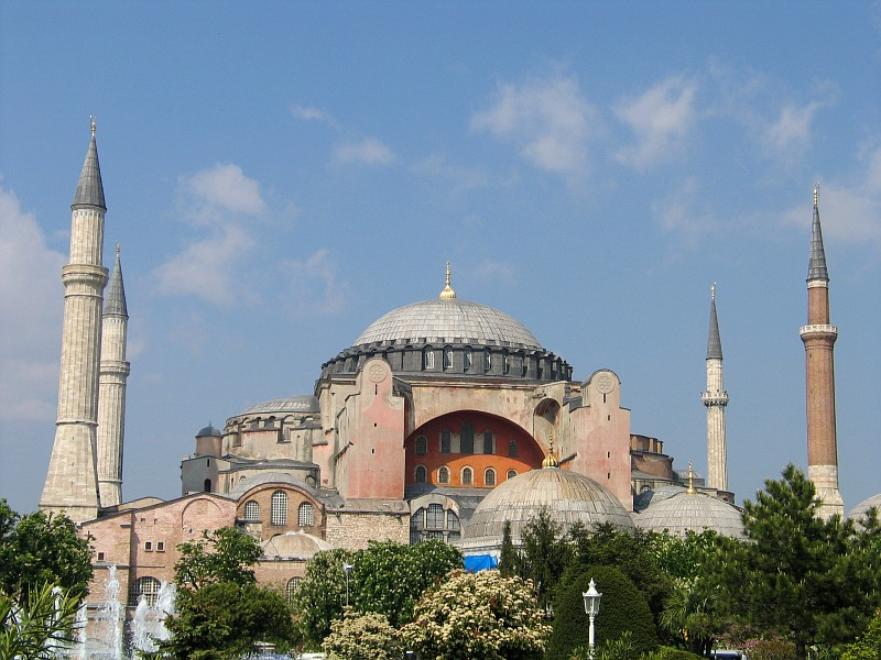 Hagia Sophia in Istanbul, Turkey